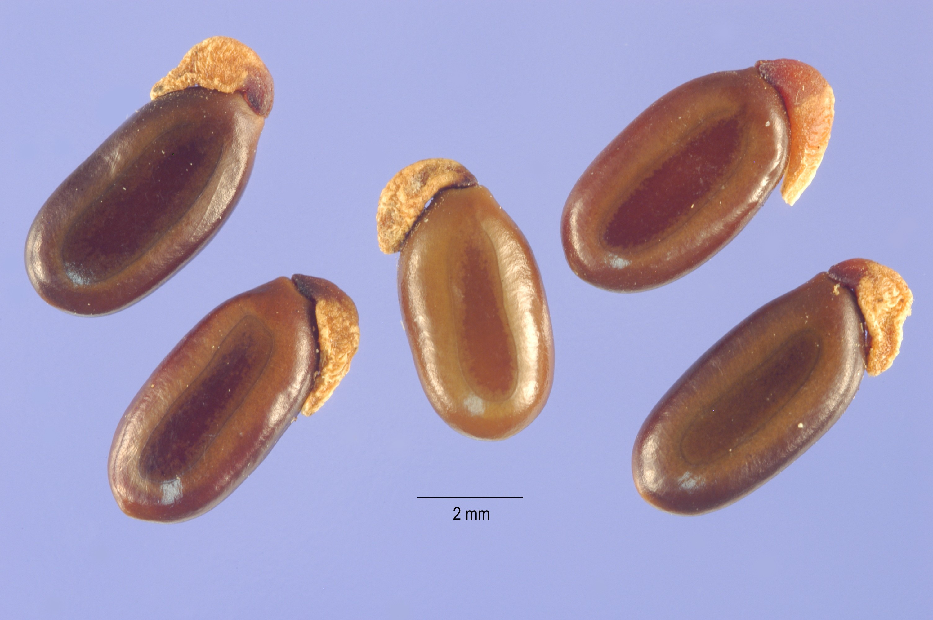 Golden Wattle. Seeds.